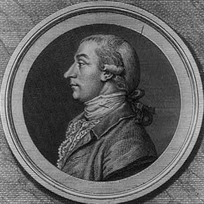 American jurist and statesman Joseph Reed (1741-1785)